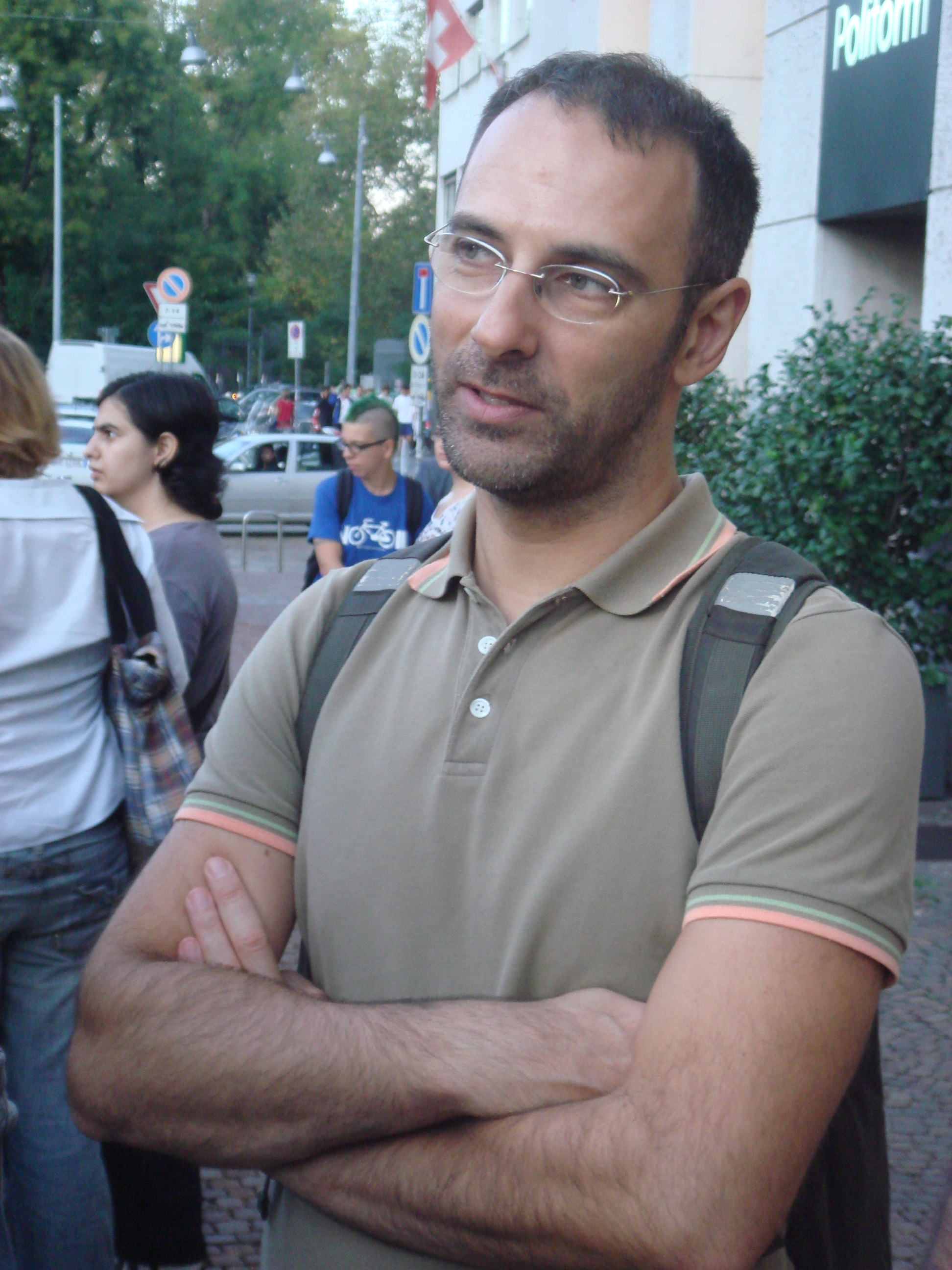 The director Claudio Cipelletti, sit-in against homophobia, Milan, October 19, 2009, Italy..